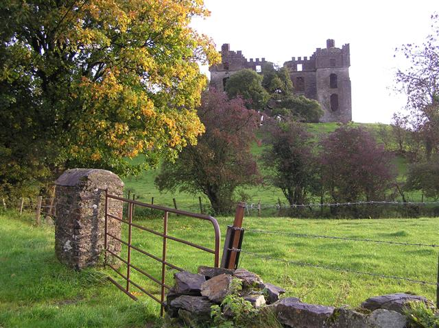 Raphoe Castle It is positioned on a small hill